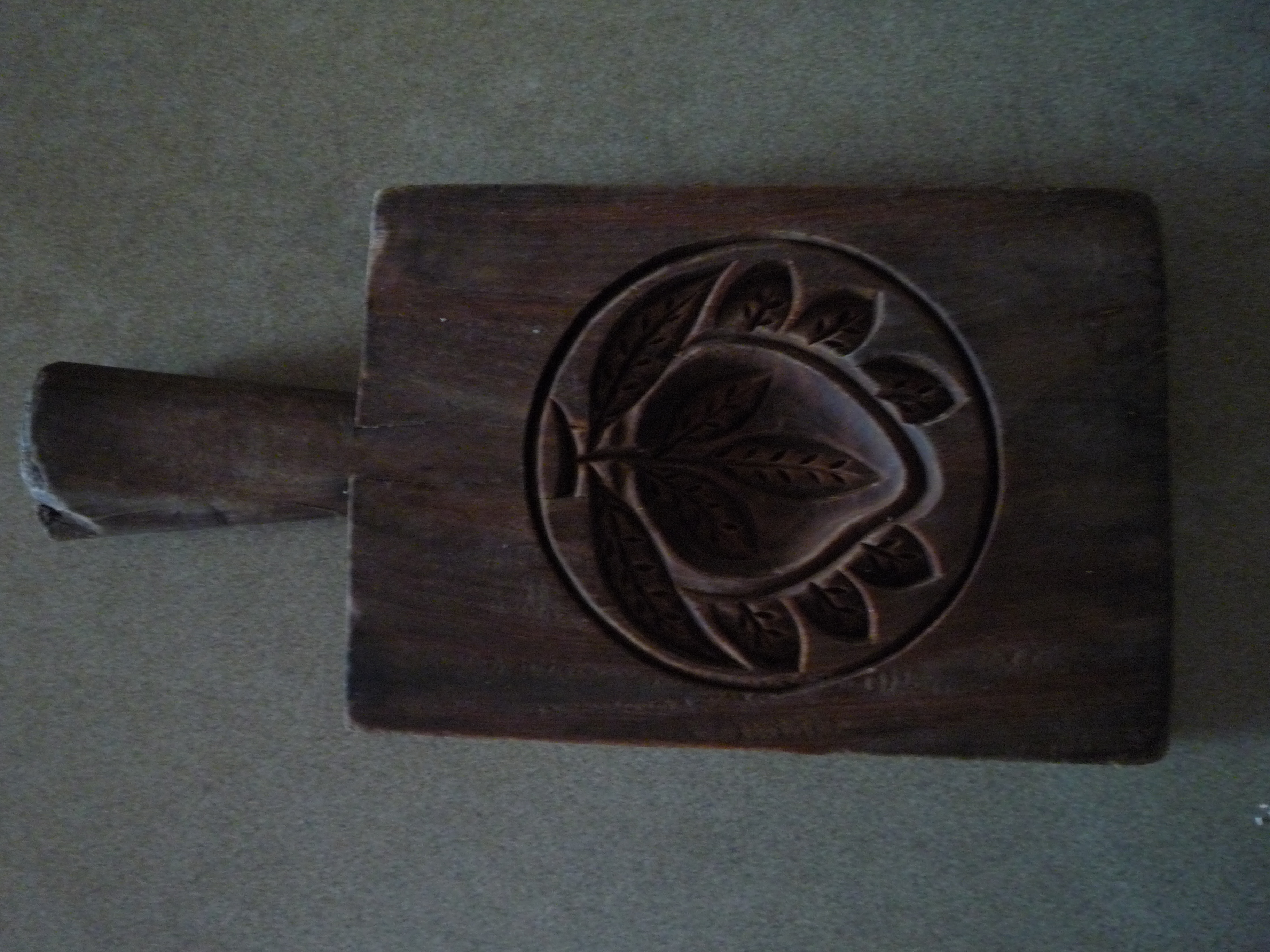 Floral design on red tortoise cake mould. Own work